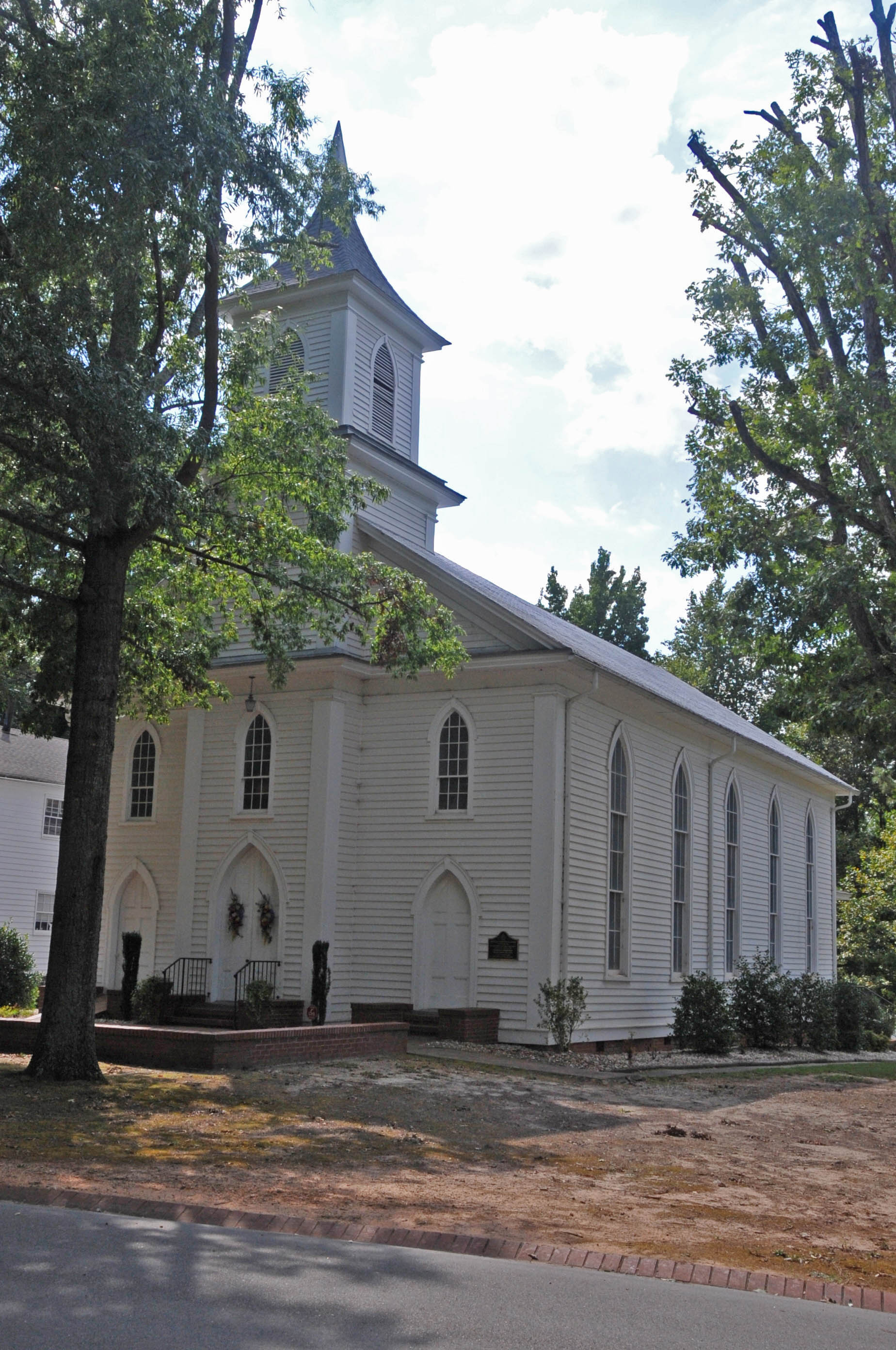 FOUNDED IN 1797; FOURTH CHURCH ON THE SITE WITH THIS ONE ERECTED IN 1880